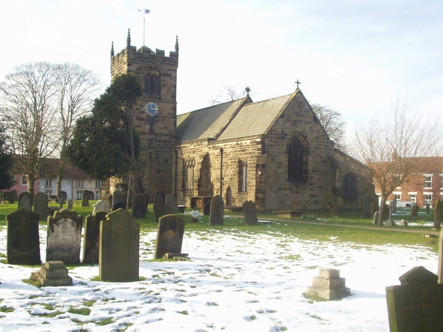 St Thomas' Church, Brompton by Northallerton. The gravestones in the left foreground are mainly those of my Stainthorp ancestors.